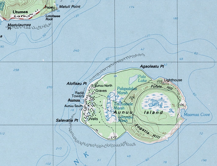 map of Aunuu Island southeast of Tutuila Island, American Samoa, Pacific Ocean